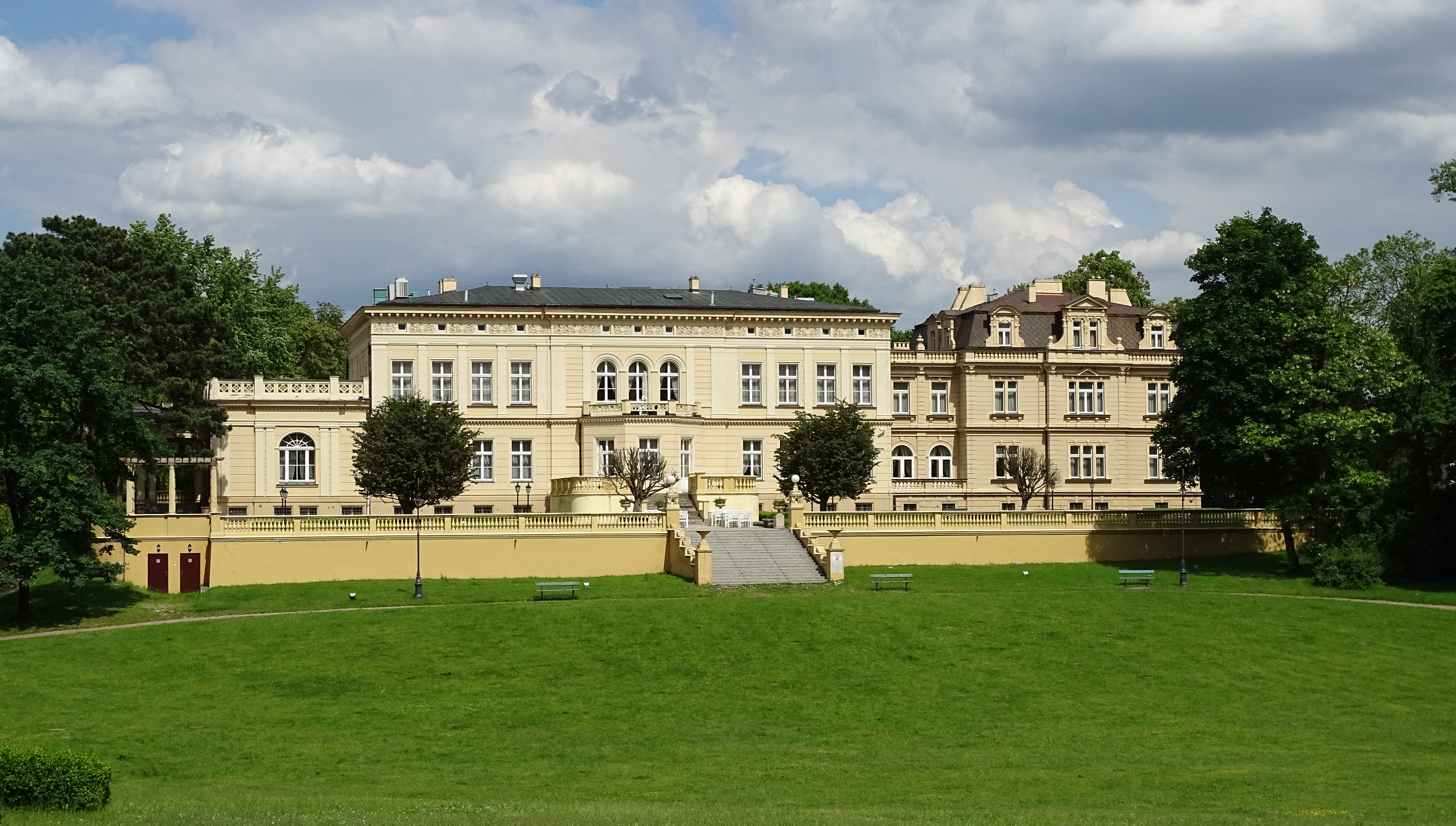 Ostromecko, Gmina Dąbrowa Chełmińska, Poland. The New Palace, built 1849.